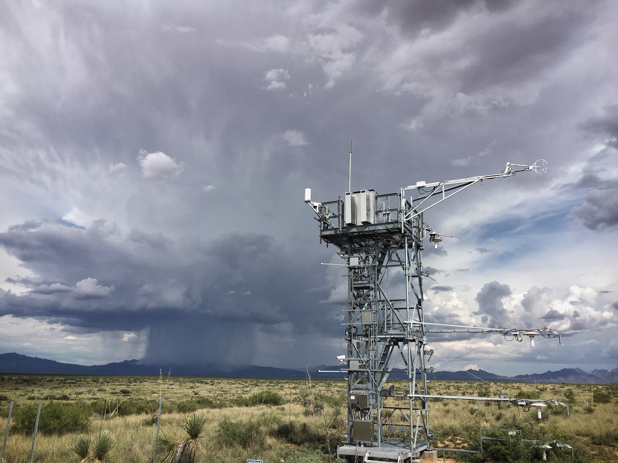 JORN tower during monsoon season. Photo credit: Robin Luna